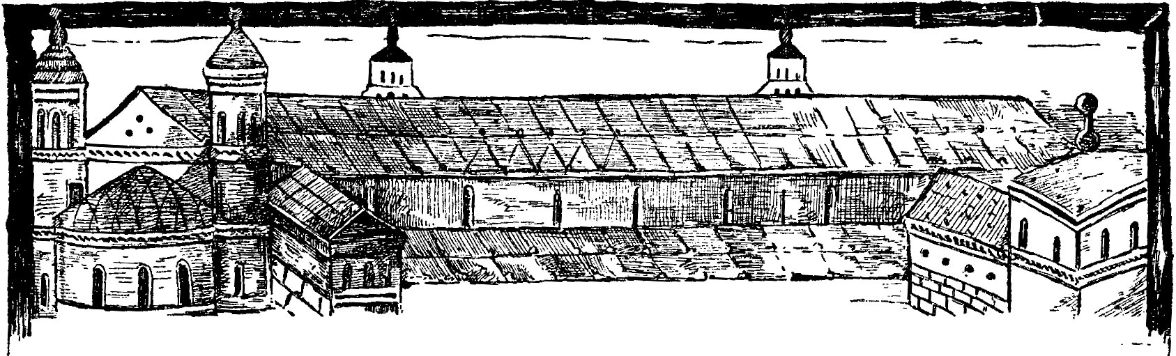 This is a scan of the historical document